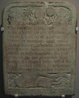 Nicolas Flamel's gravestone, designed by himself, in Musée national du Moyen Âge, Paris